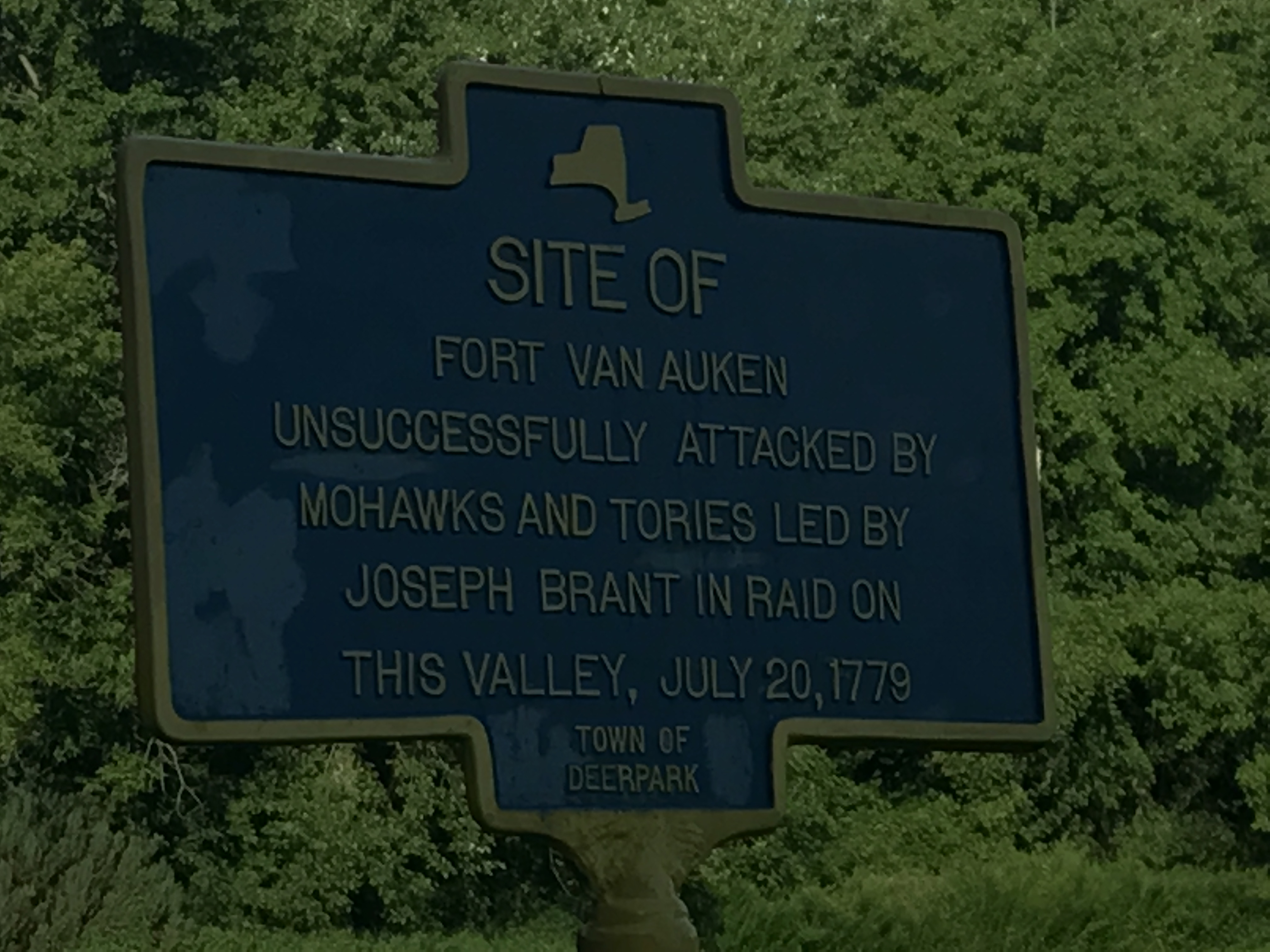 Historic marker on Neversink Drive Fort Van Auken unsuccessfully attacked in Indian Raid, 1779, Town of Deerpark, Orange County, New York. Orange County CR80.